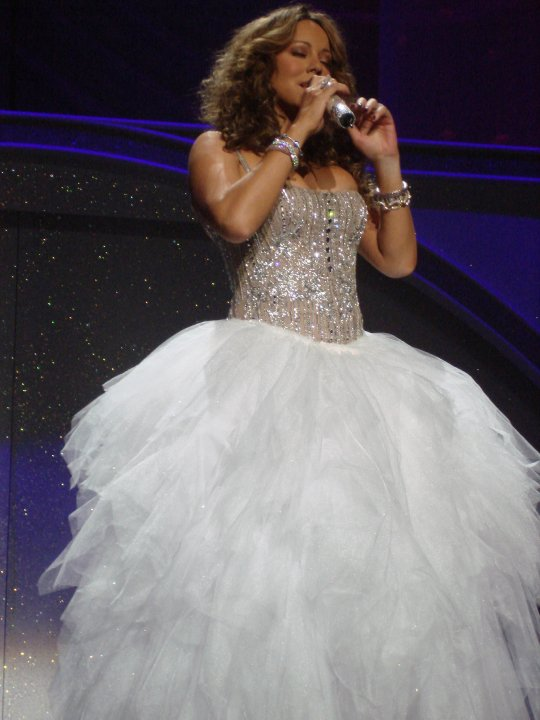 Mariah Carey performing live in Las Vegas in September 2009